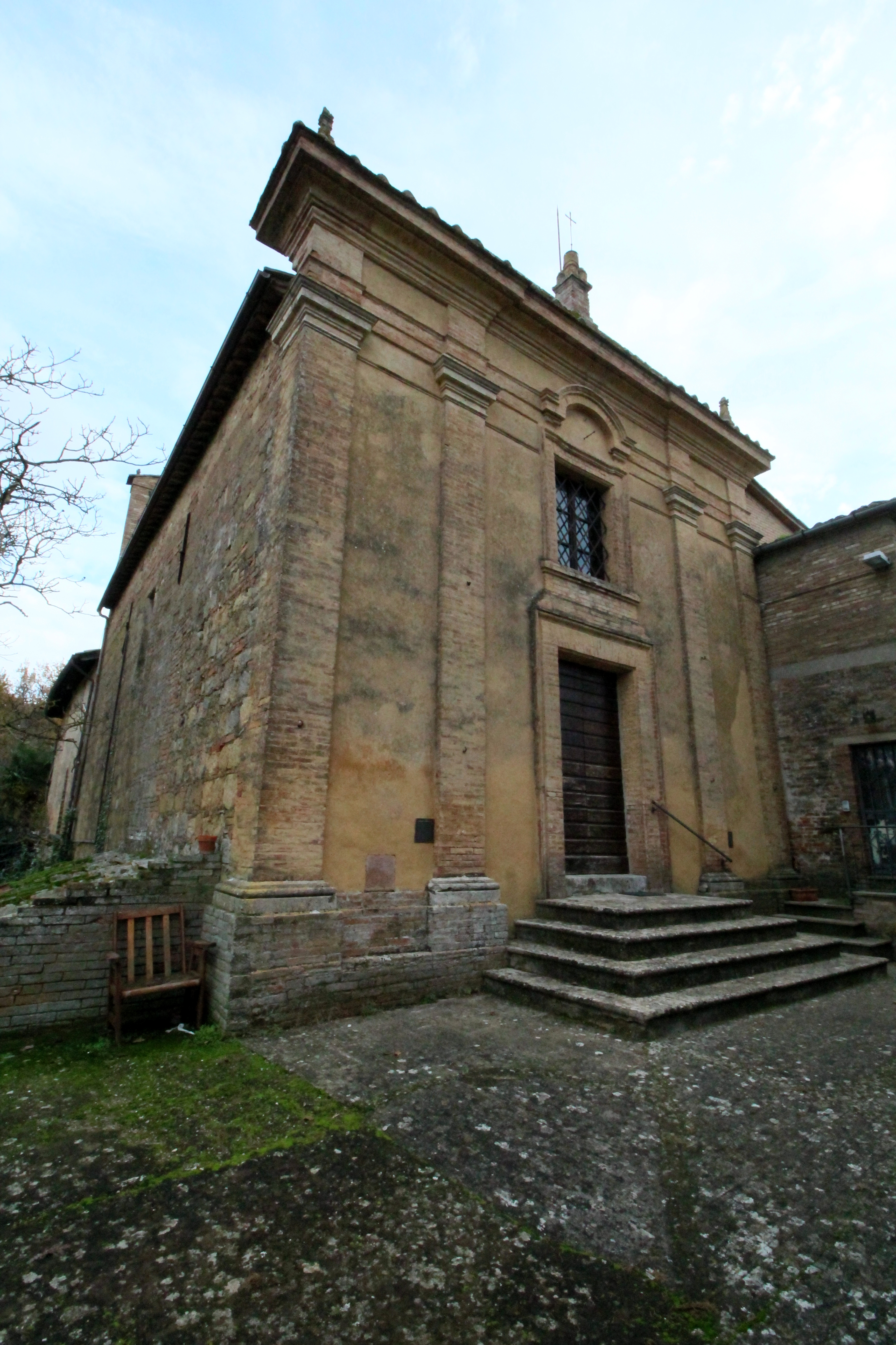 Church San Pietro, Barontoli, Village in the Territory of Sovicille, Province of Siena, Tuscany, Italy